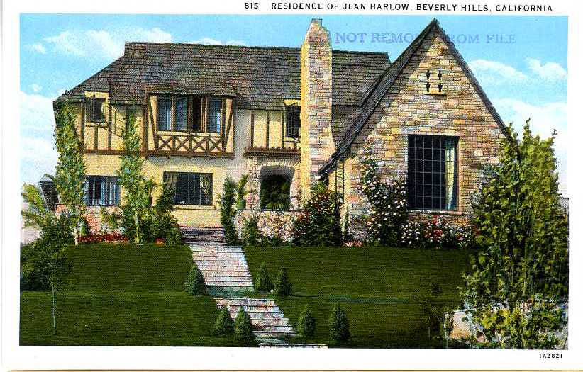 815, Residence of Jean Harlow, Beverly Hills